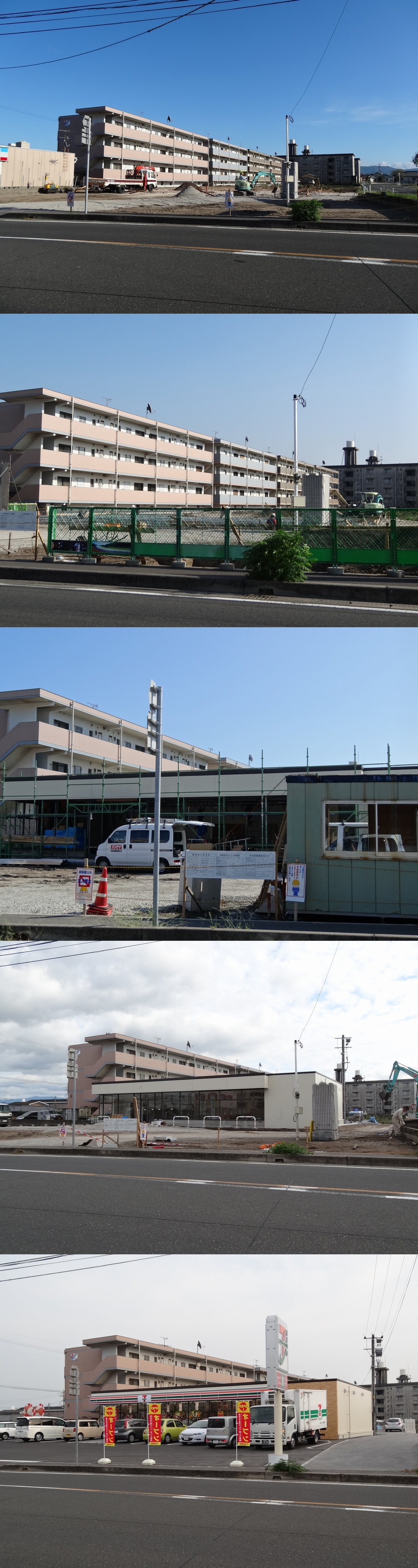 The Construction Process of the Convenience Store "7-Eleven" (Kagoshima Prefecture, Japan)